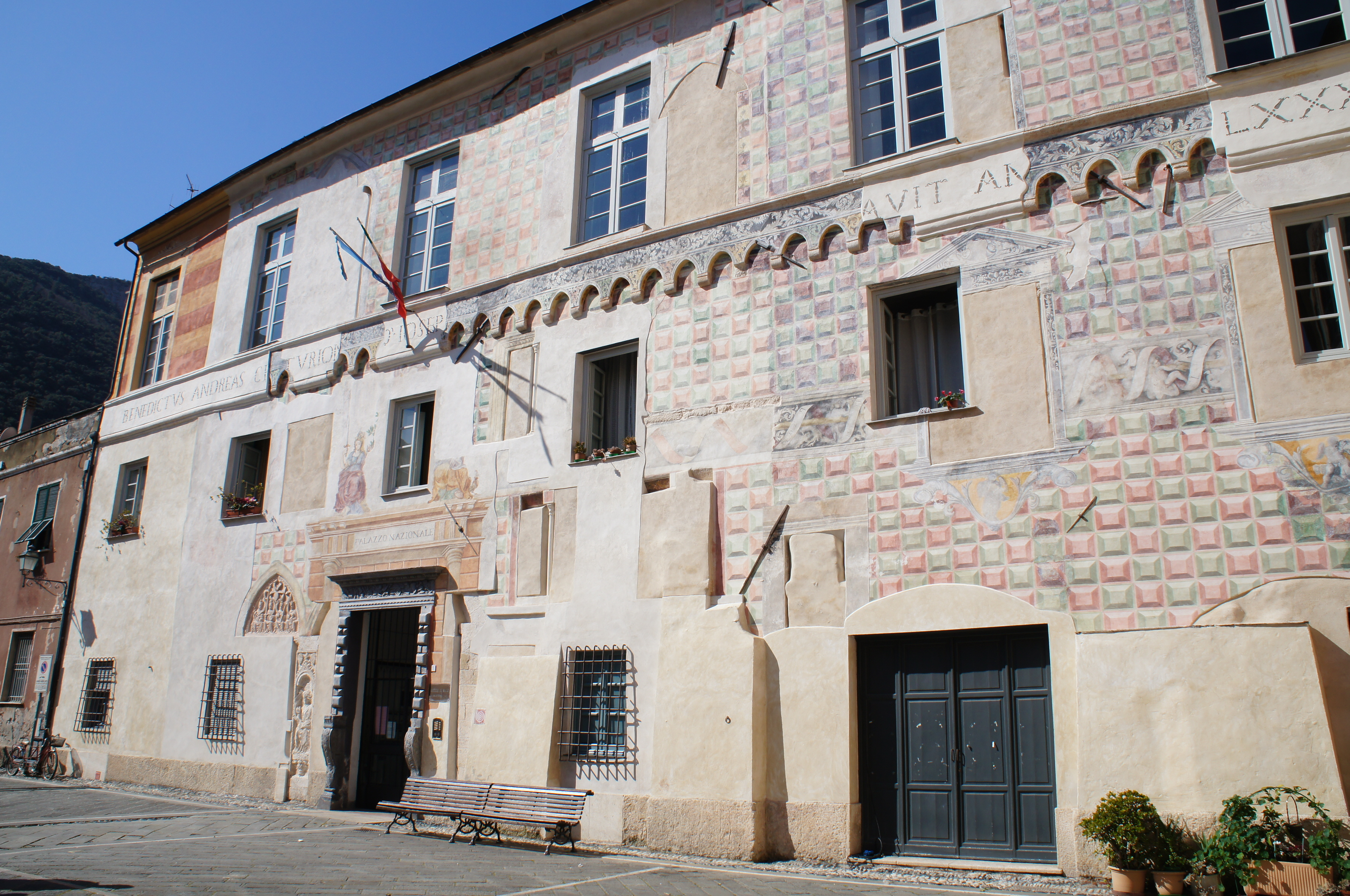 Palace in Finalborgo